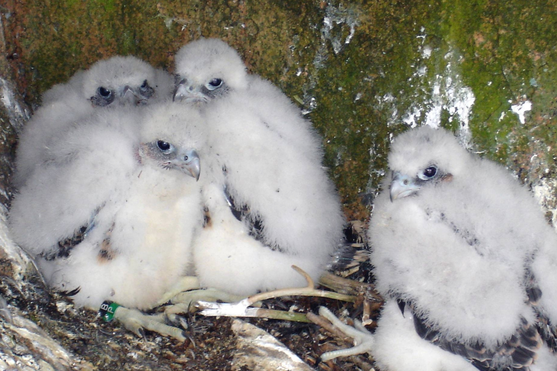 Peregrine falcon chicks back in their scrape after being banded, Acadia National Park, Maine, United States.